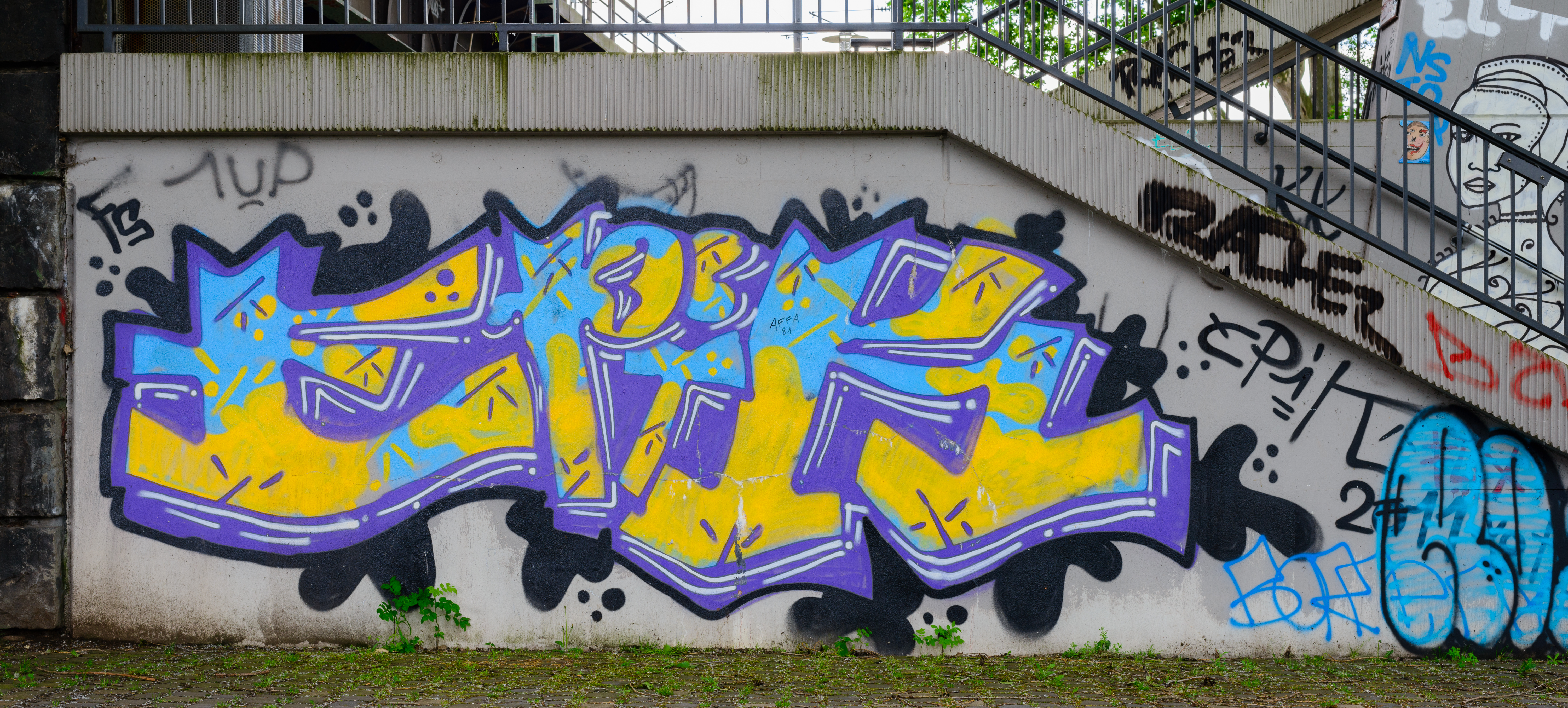 Graffiti below a railway bridge, Frankfurt Main, Hesse, Germany.